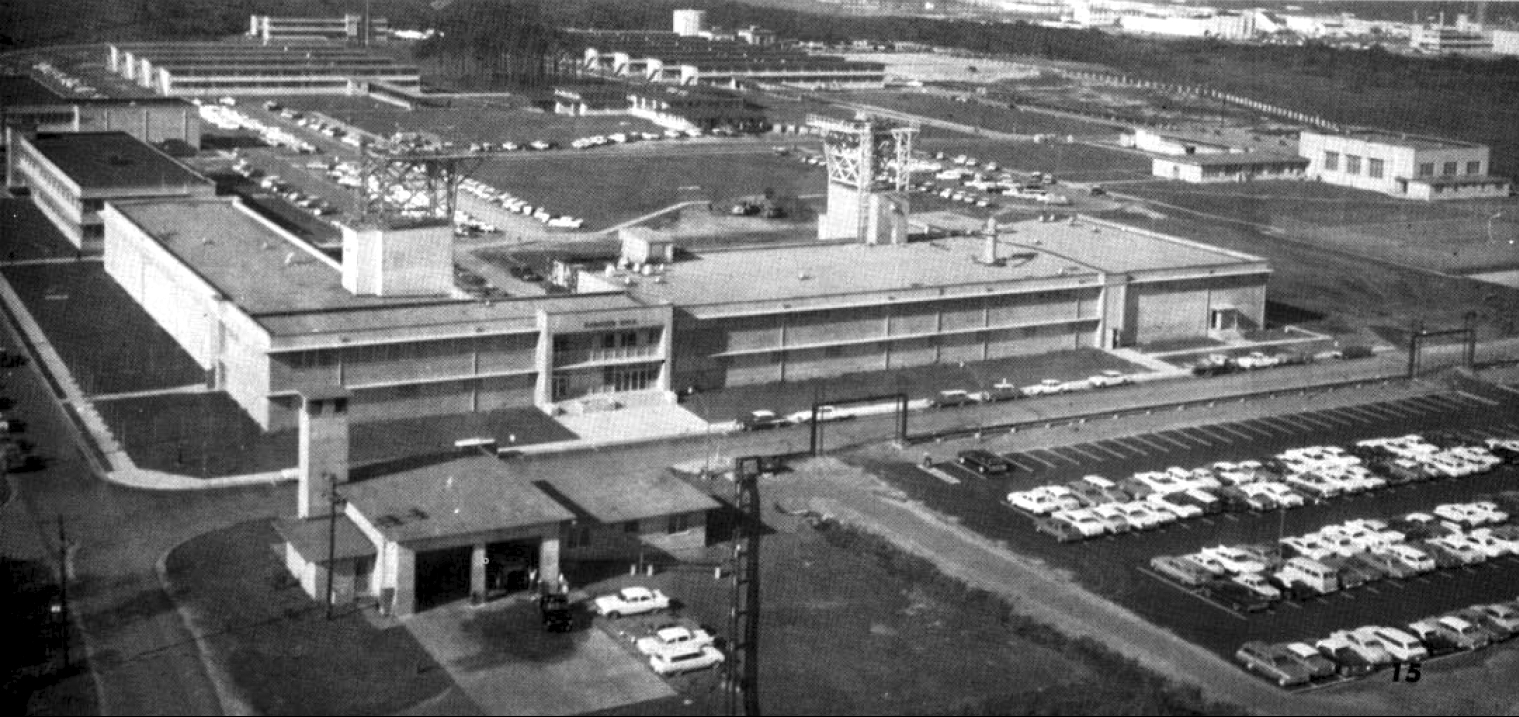 View of the U.S. Navy UGM-27 Polaris ballistic missile training facility at the Fleet Combat Training Center Atlantic at Dam Neck, Virginia Beach, Virginia (USA), circa 1964.